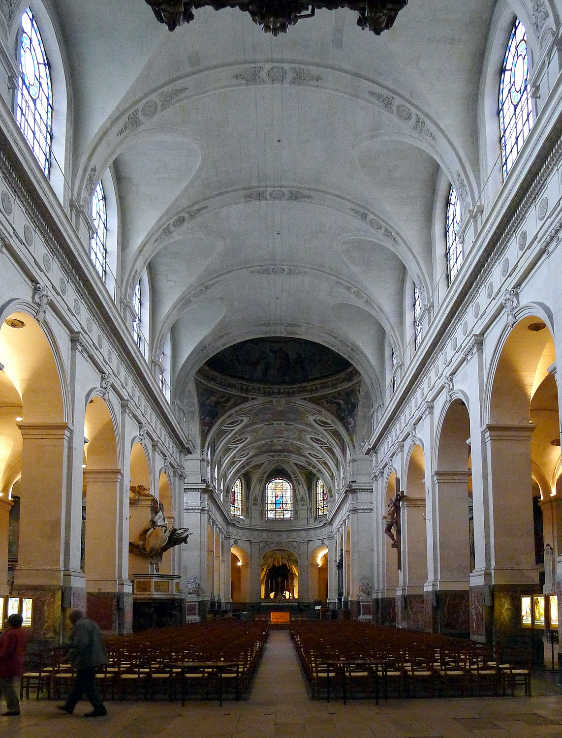 Saint-Roch church - Paris